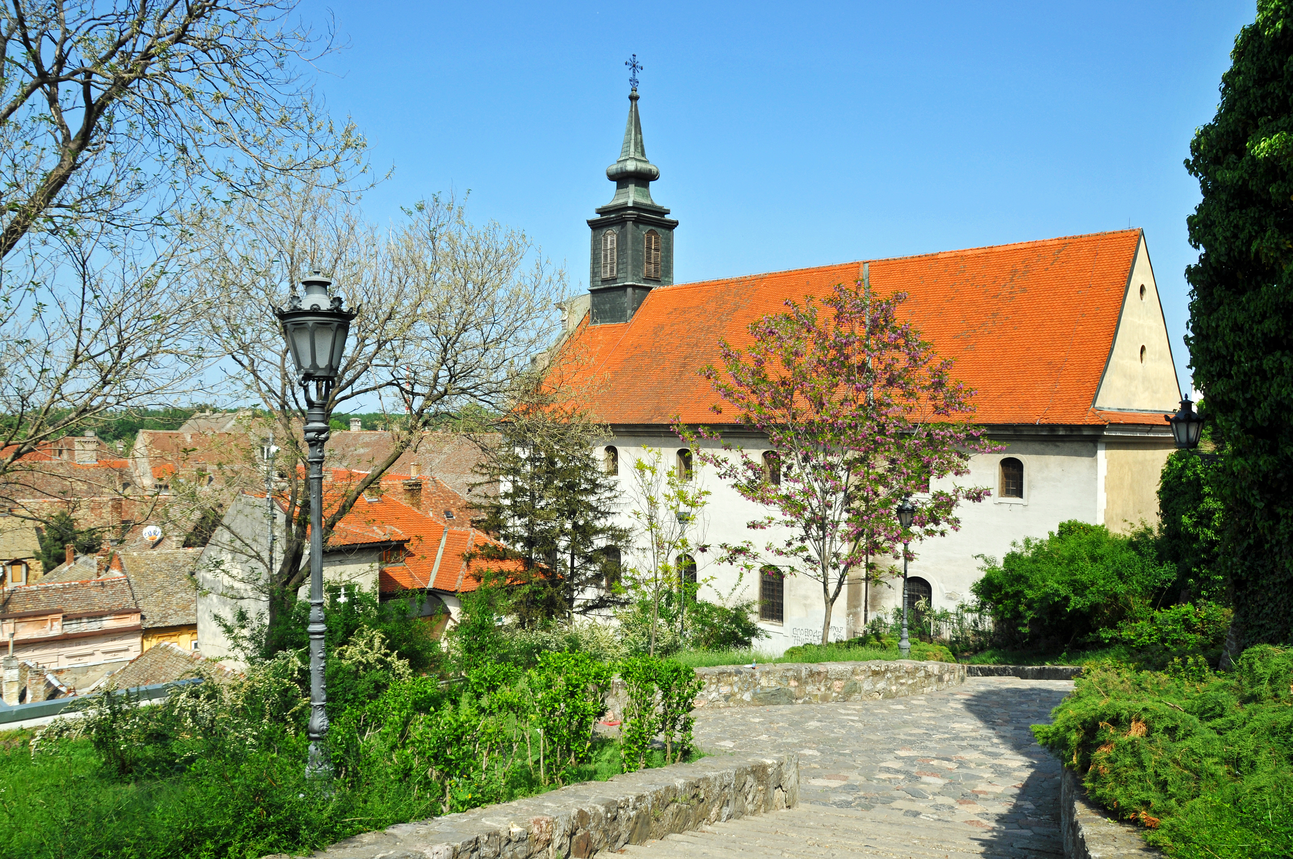 The church is St. Juraj (George) Roman-Catholic Church that is just below the Petrovaradin Fortress.